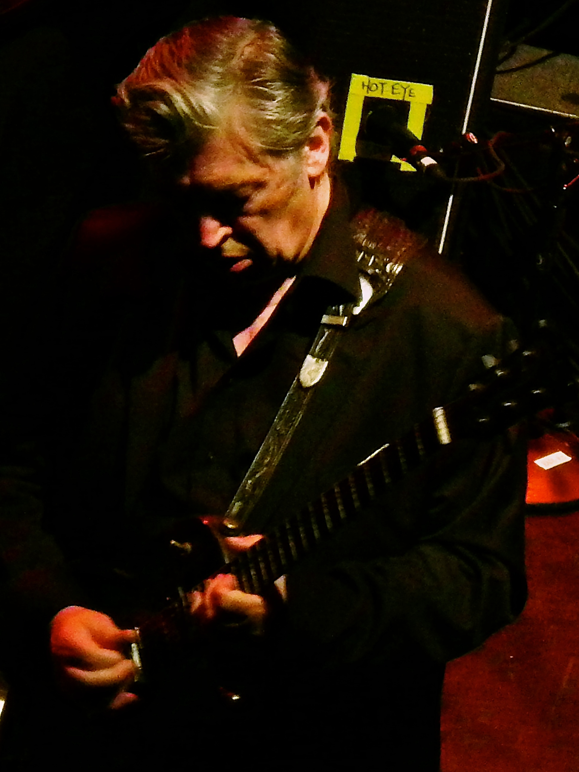 Chris Spedding during a Bryan Ferry concert at Beacon Theatre, NYC